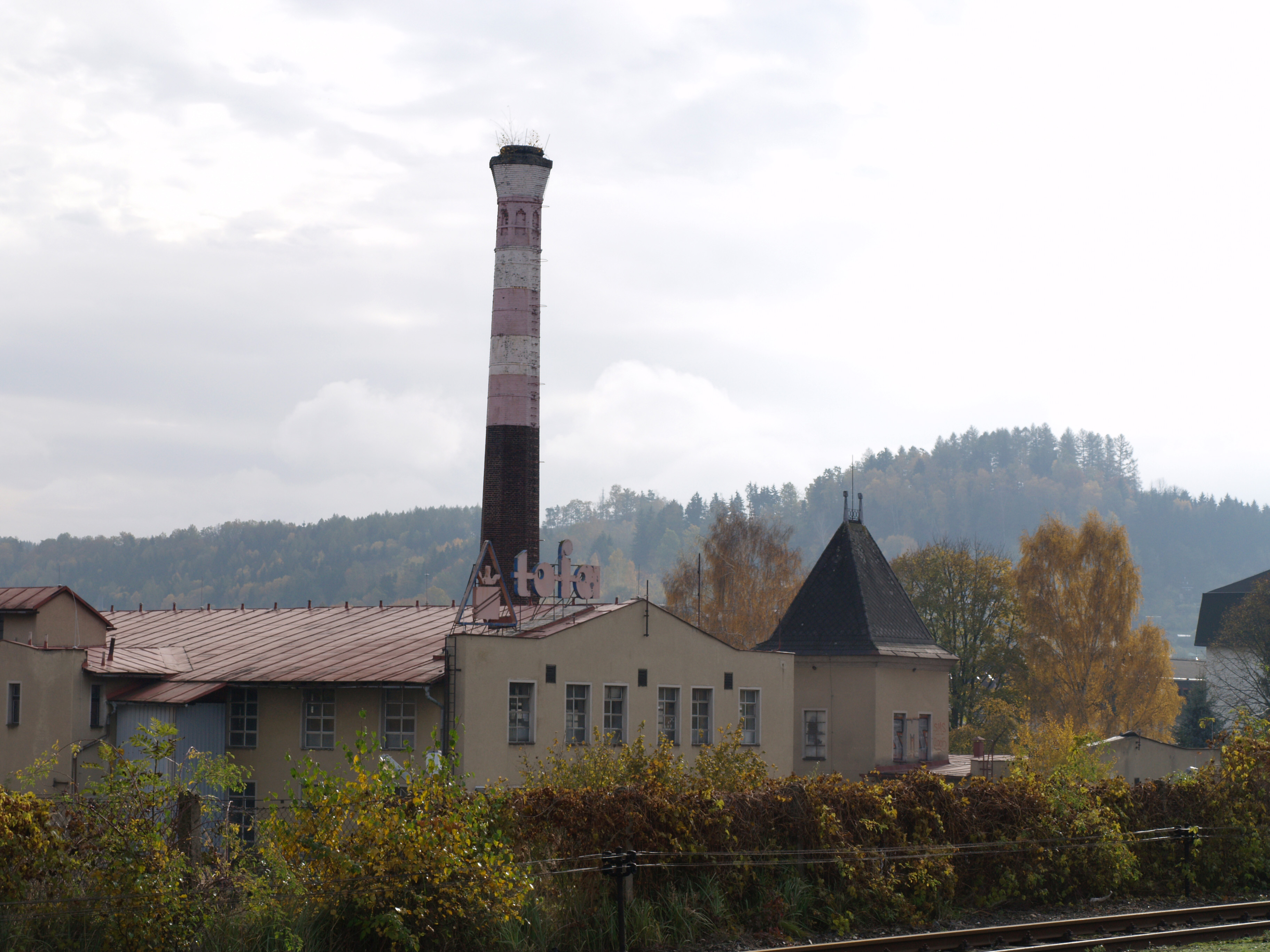 View from train station in Czech town Semily to former well-known Czech toy factory “TOFA”